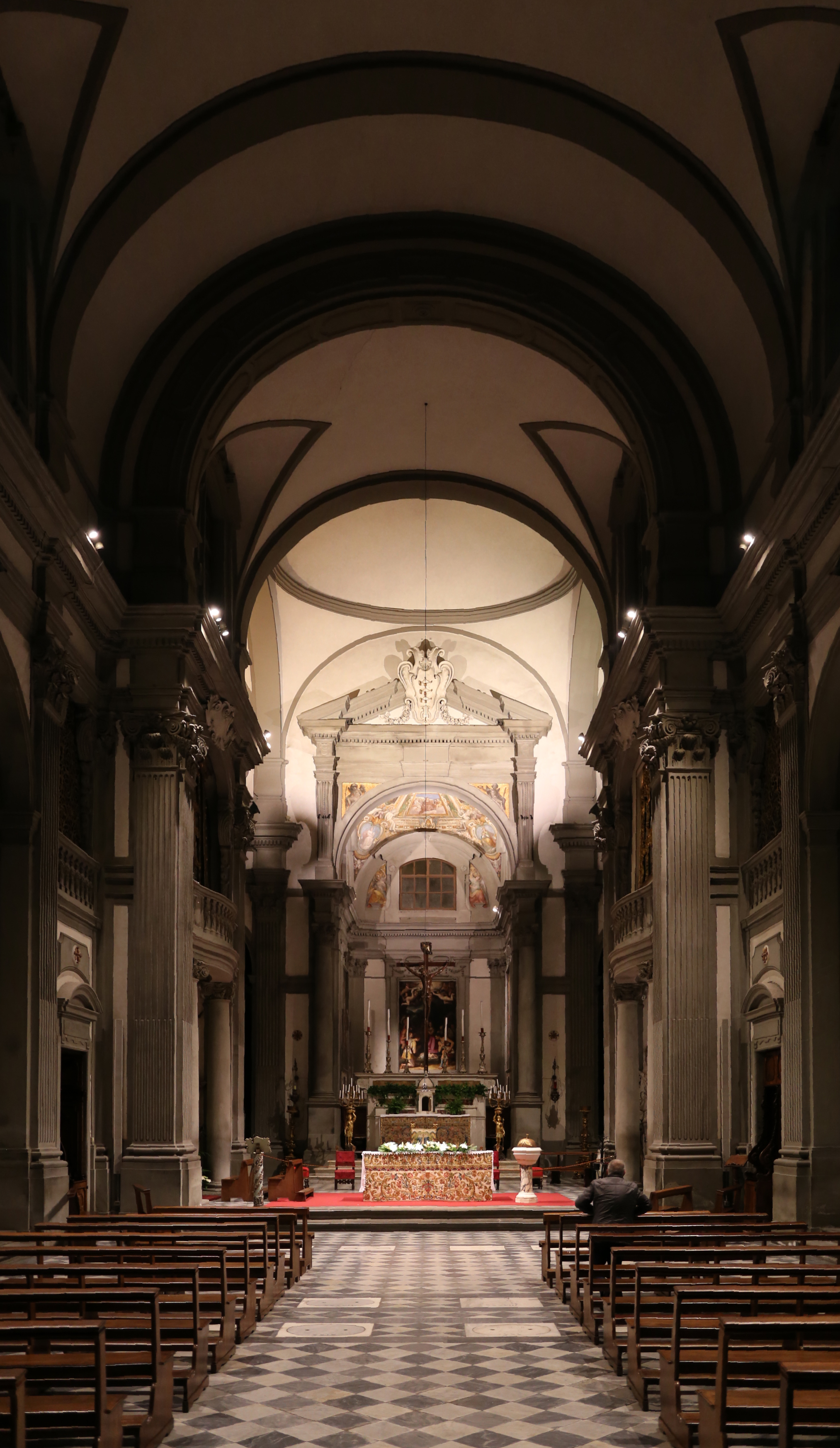 Santa Felicita (Florence) - Interior